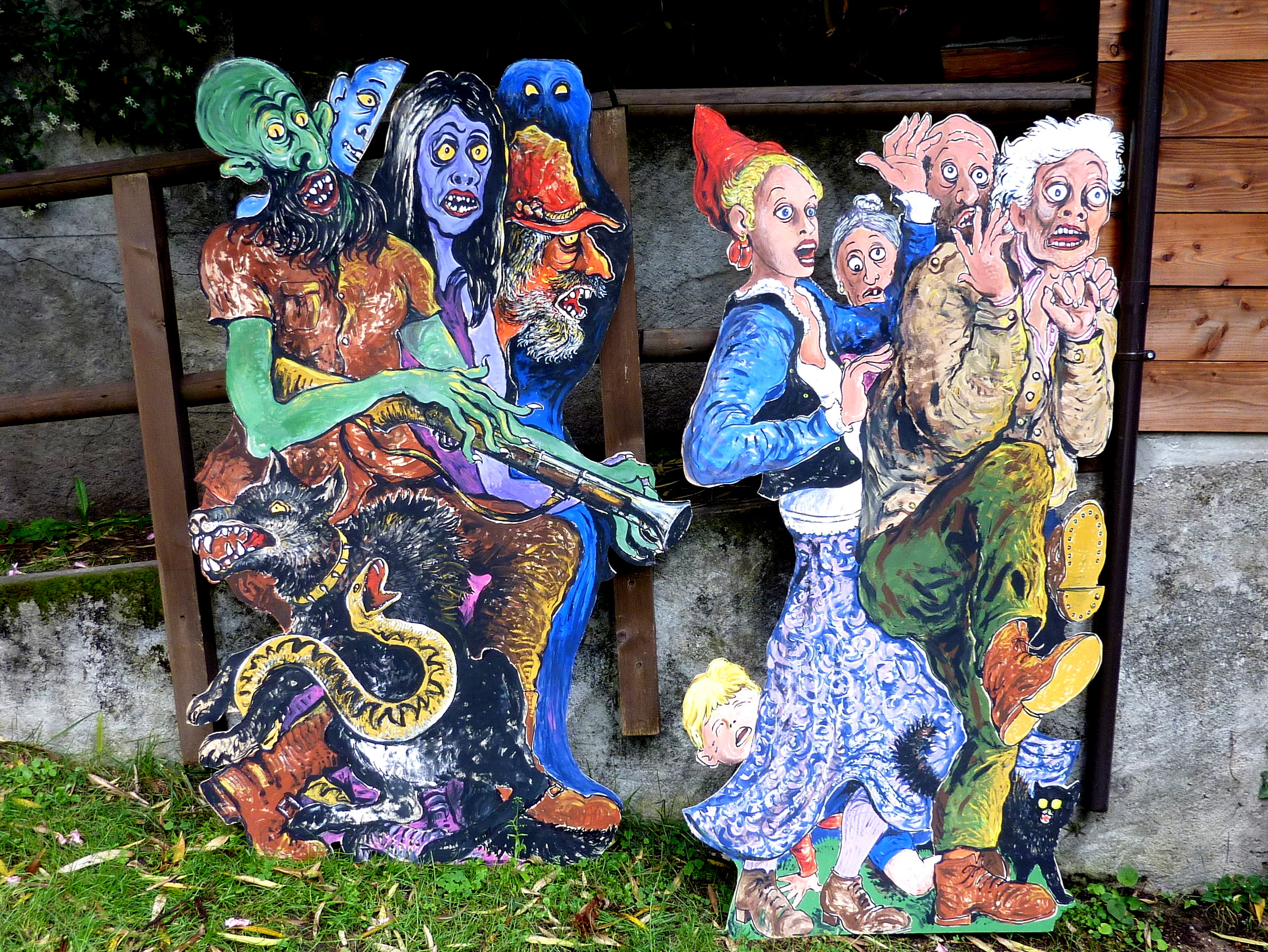 Representations of scary stories of Esino Lario by Paolo Boncompagni. Series of images-sculptures created around folk stories of Esino Lario.